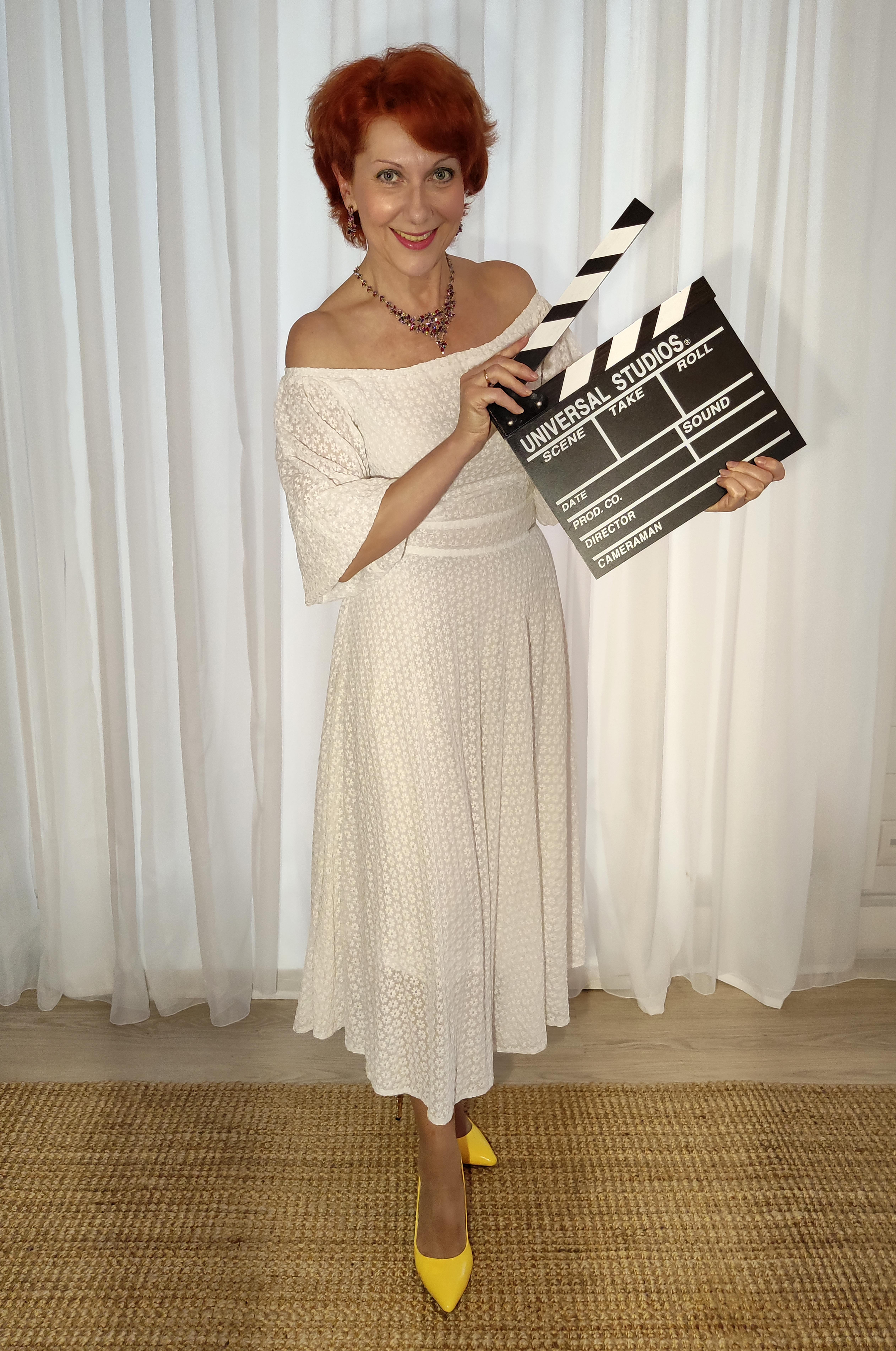 Stashenko Oksana, actress, Honored Artist of Russia